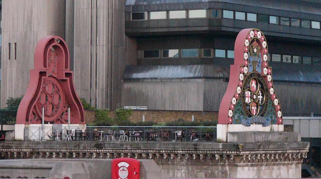 Front and back of insignia on the southern abutment of the derelict bridge, tables and chairs in between